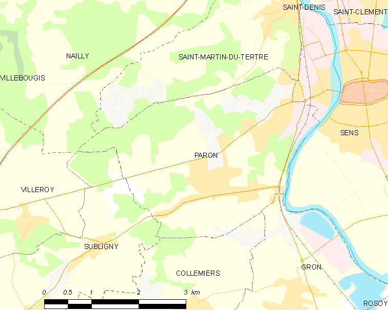 Map of French municipality Paron